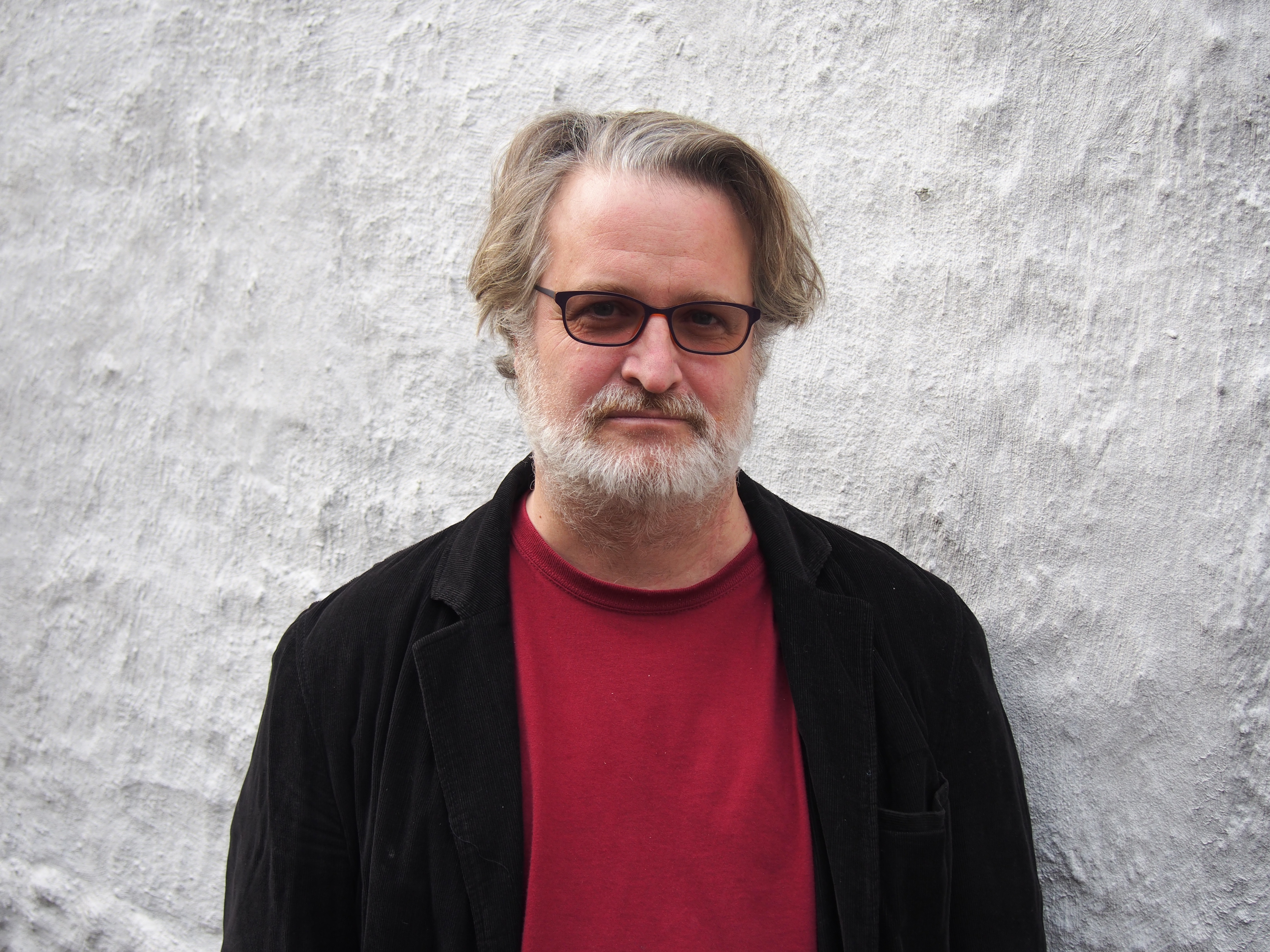 Theodore Hamm